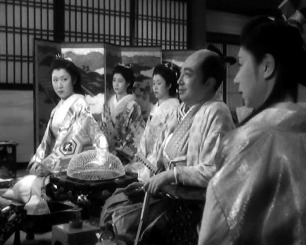 Screenshot from The Life of Oharu, 1952 film. Oharu (right), fictional daimyo Lord Harutaka Matsudaira (Toshiaki Konoe) and his wife Lady Matsudaira (left, Hisako Yamane).